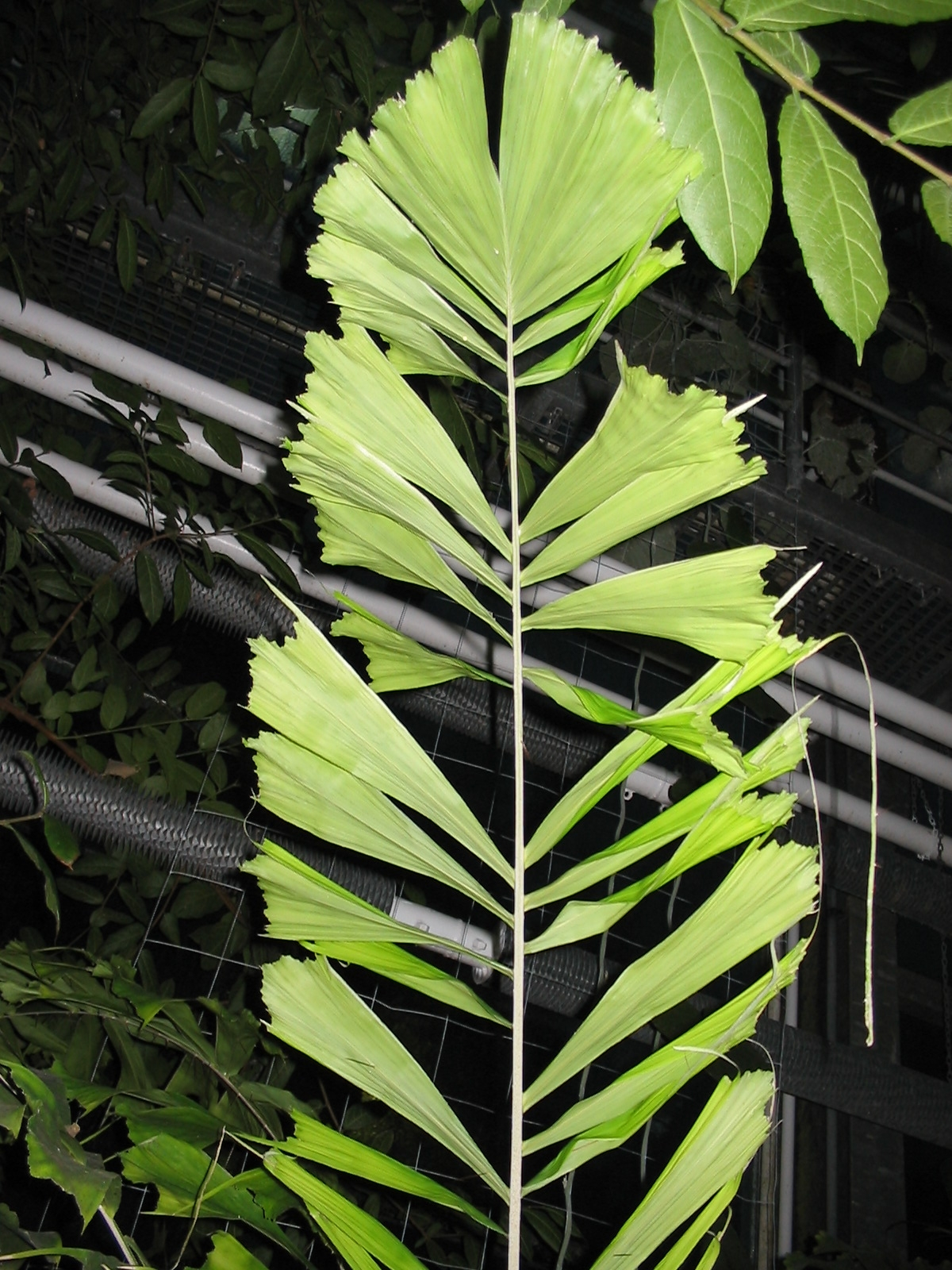 Aiphanes horrida in the botanical Garden Jena (Leaf)